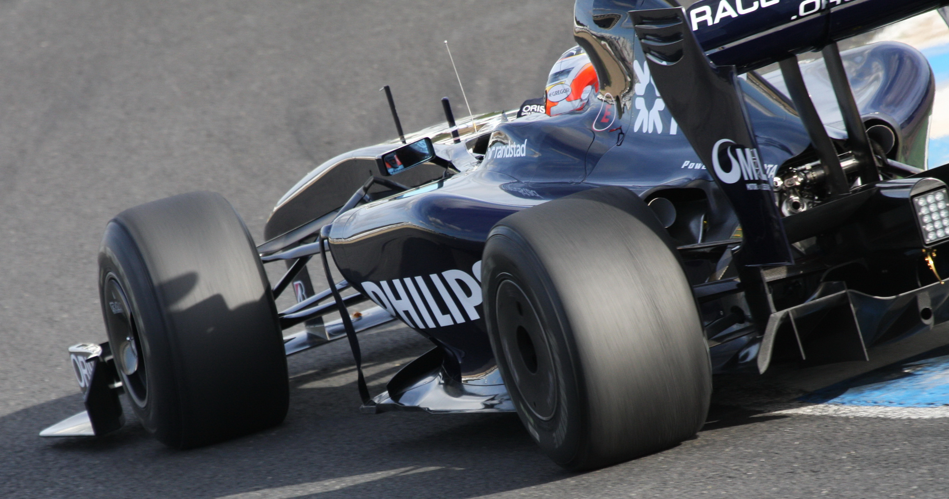 Nico Hulkenberg in the Wiliams FW31, F1 testing session, Jerez 10-Feb-2009